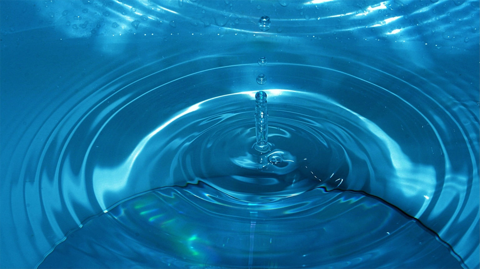 A water droplet creates a backjet and the waves by impacting a water surface.